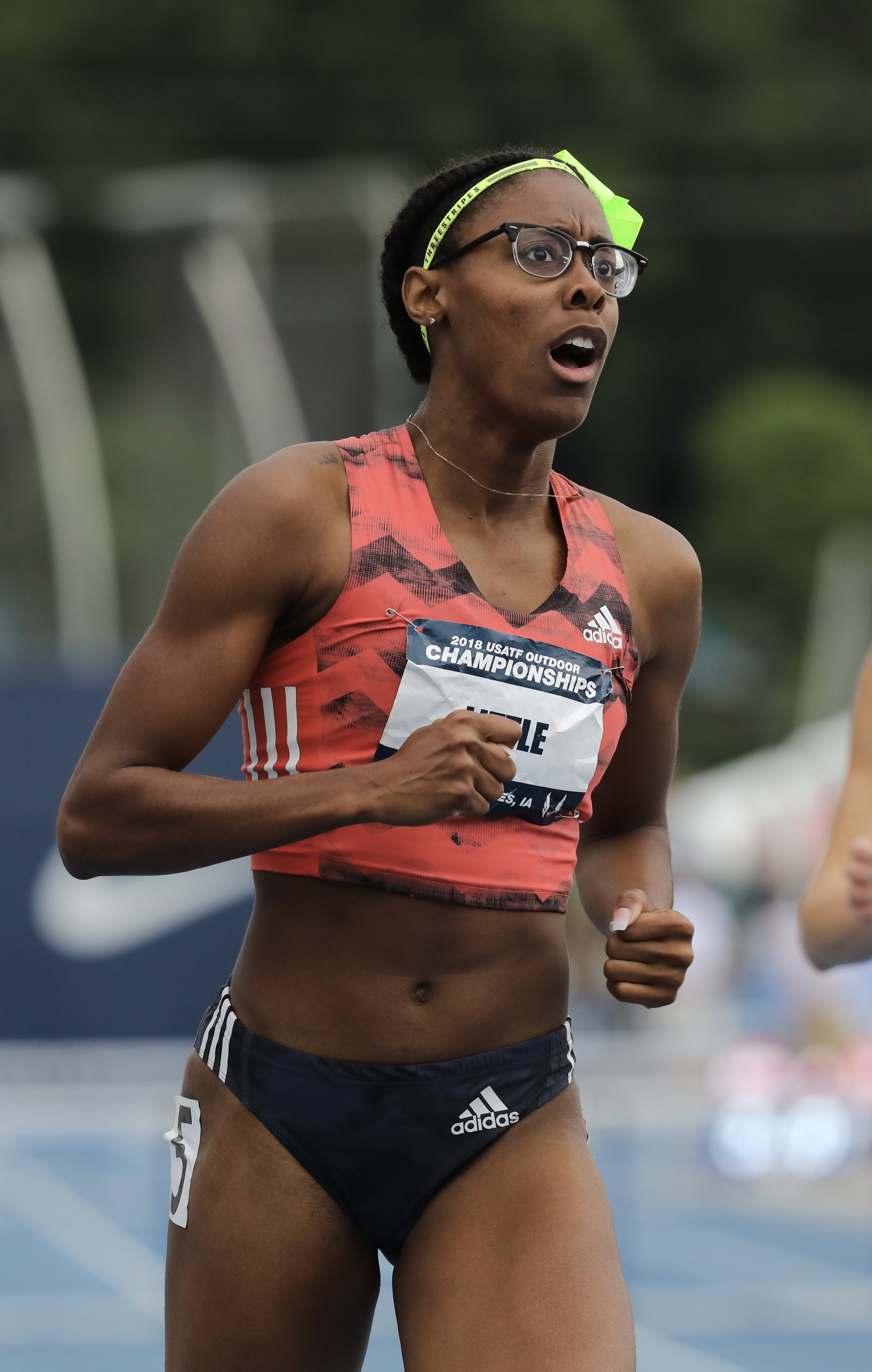 2018 USA Outdoor Track and Field Championships